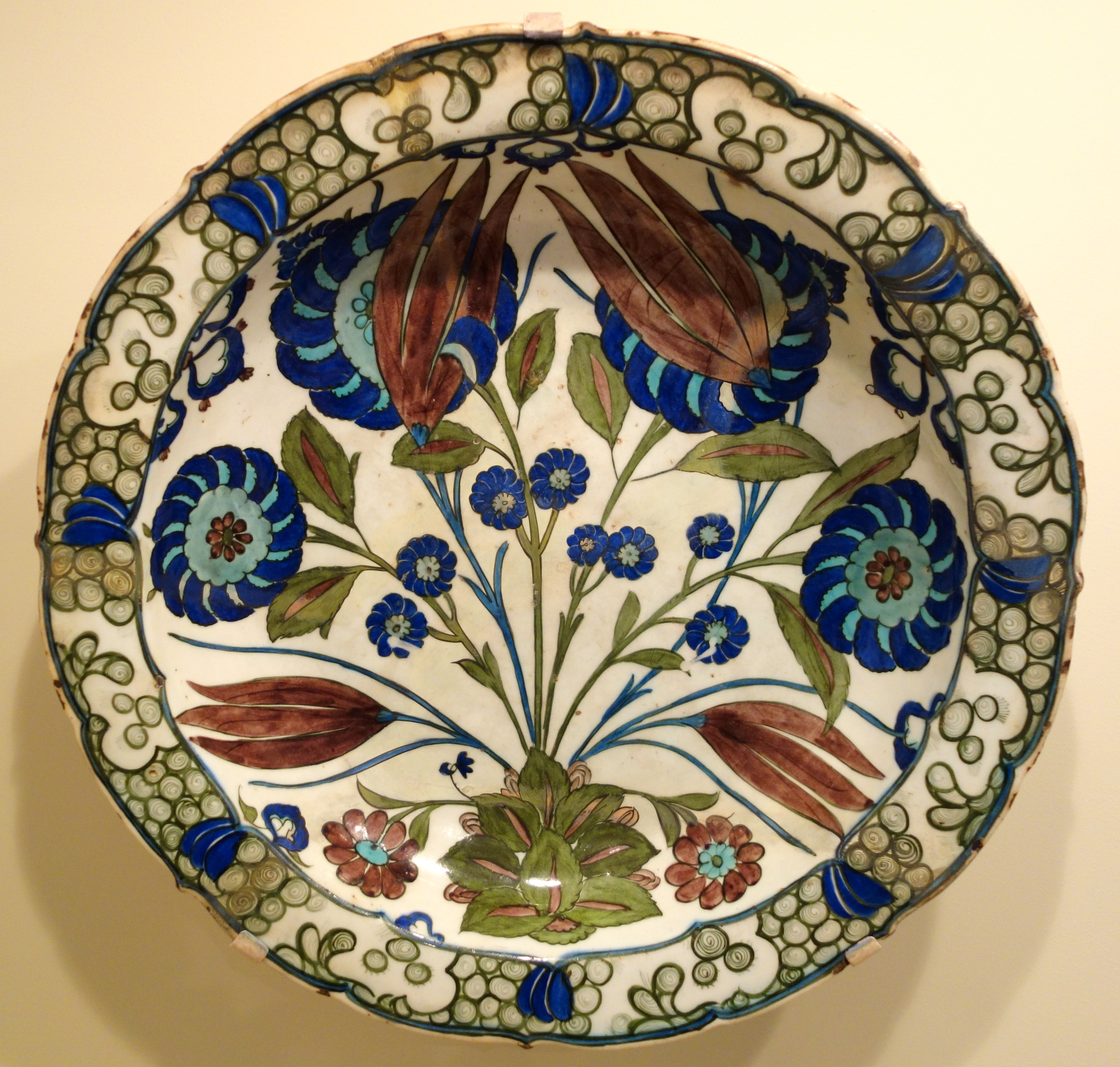 Exhibit in the Cincinnati Art Museum, Cincinnati, Ohio, USA. This artwork is in the public domain because the artist died more than 70 years ago.